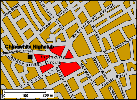 Map showing approximate location of Chinawhite nightclub in Picadilly, London